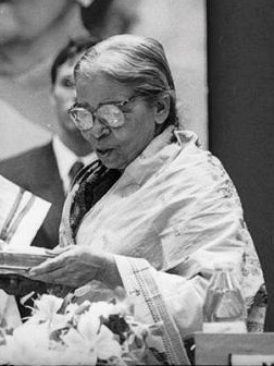 Raman Magsasy award